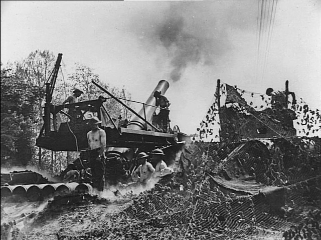 Soissons, France. A twelve inch shell being fired from one of the British Army heavy guns north of the town. Comment : This is a 12 inch railway howitzer Mk V. This photograph is part of the same shoot as Image:12inchMkVRailwayHowitzerFiringSoissons1917.jpeg NOTE : This version of the photograph has brightness and contrast artificially increased to highlight details.